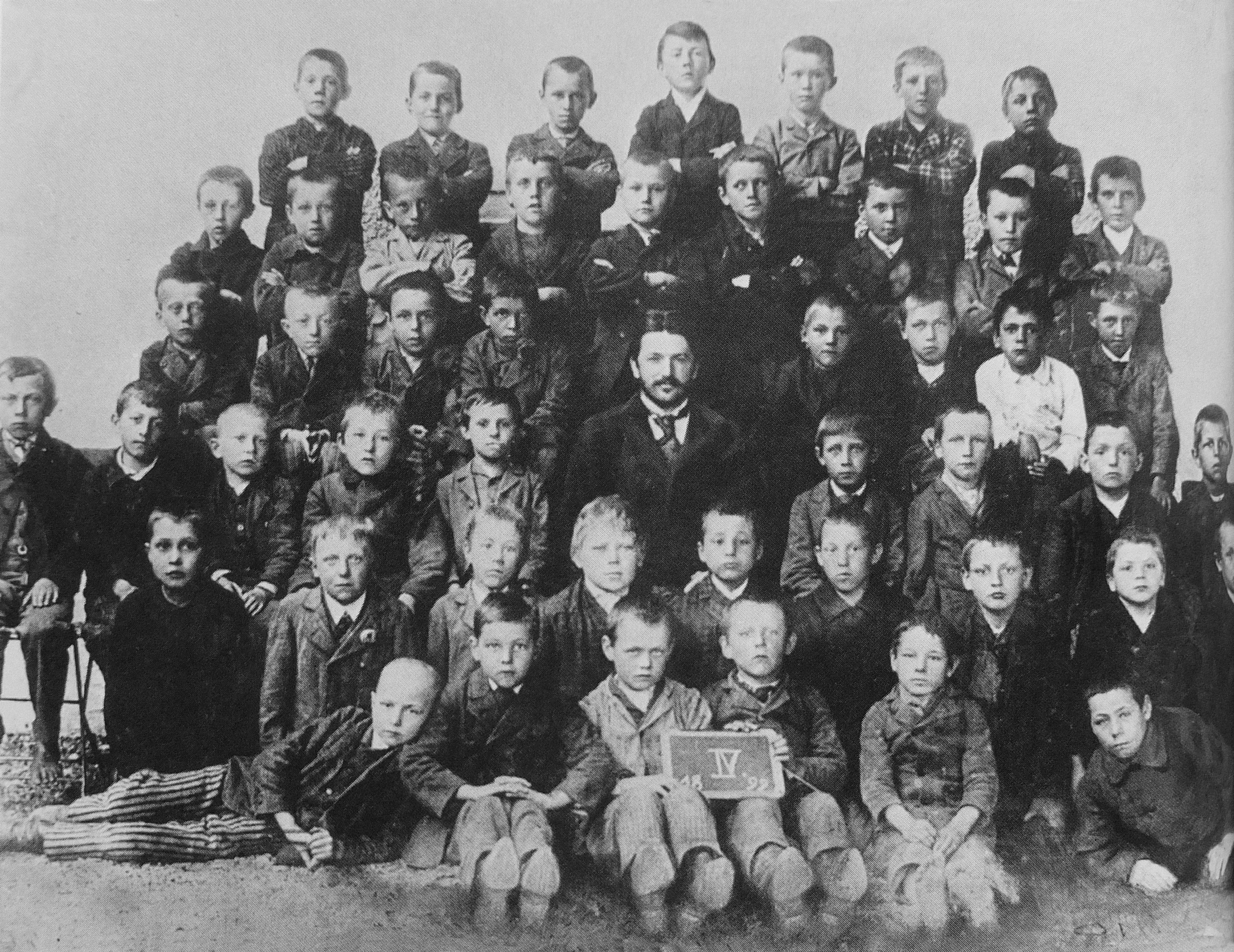 School of Leonding (Austria), class picture with Adolf Hitler (back range, central upper position) 1899, Bayerische Staatsbibliothek, Munich.